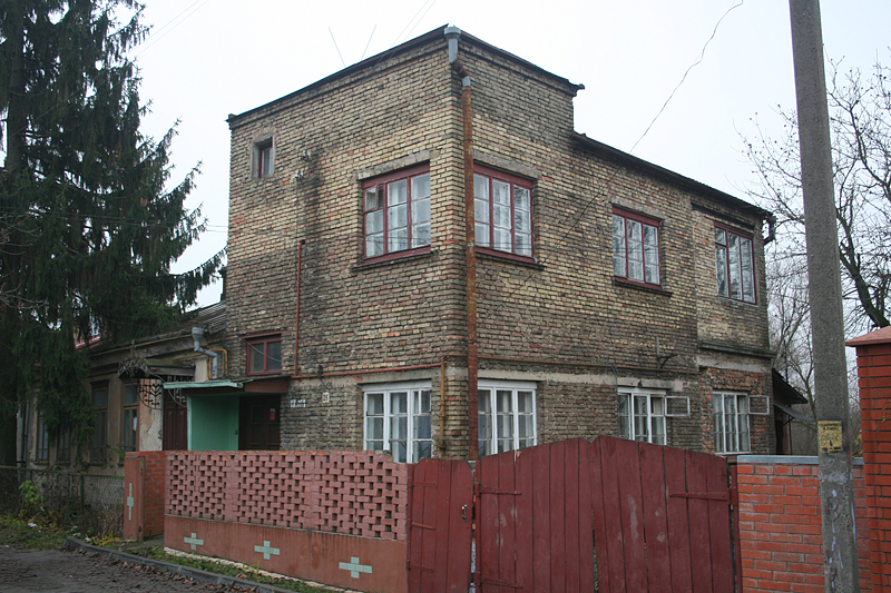 Karaite house in Lutsk